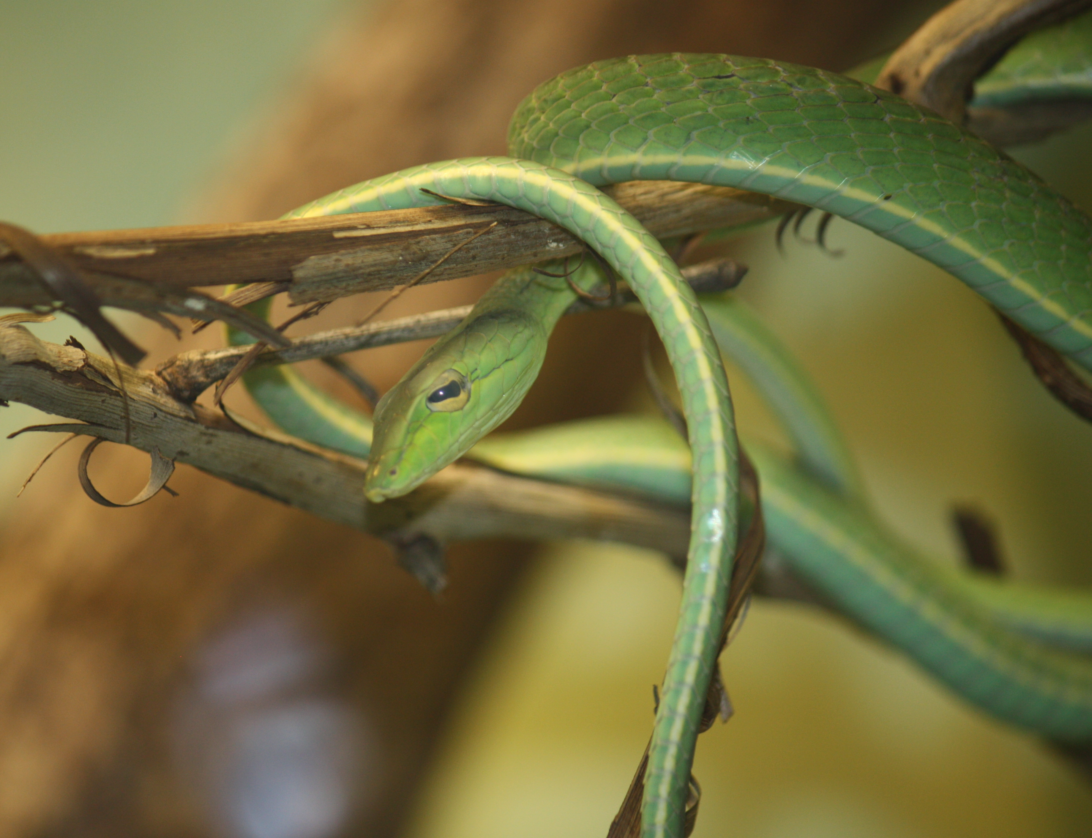 Asian Vine Snake Ahaetulla prasina at Cincinnati Zoo